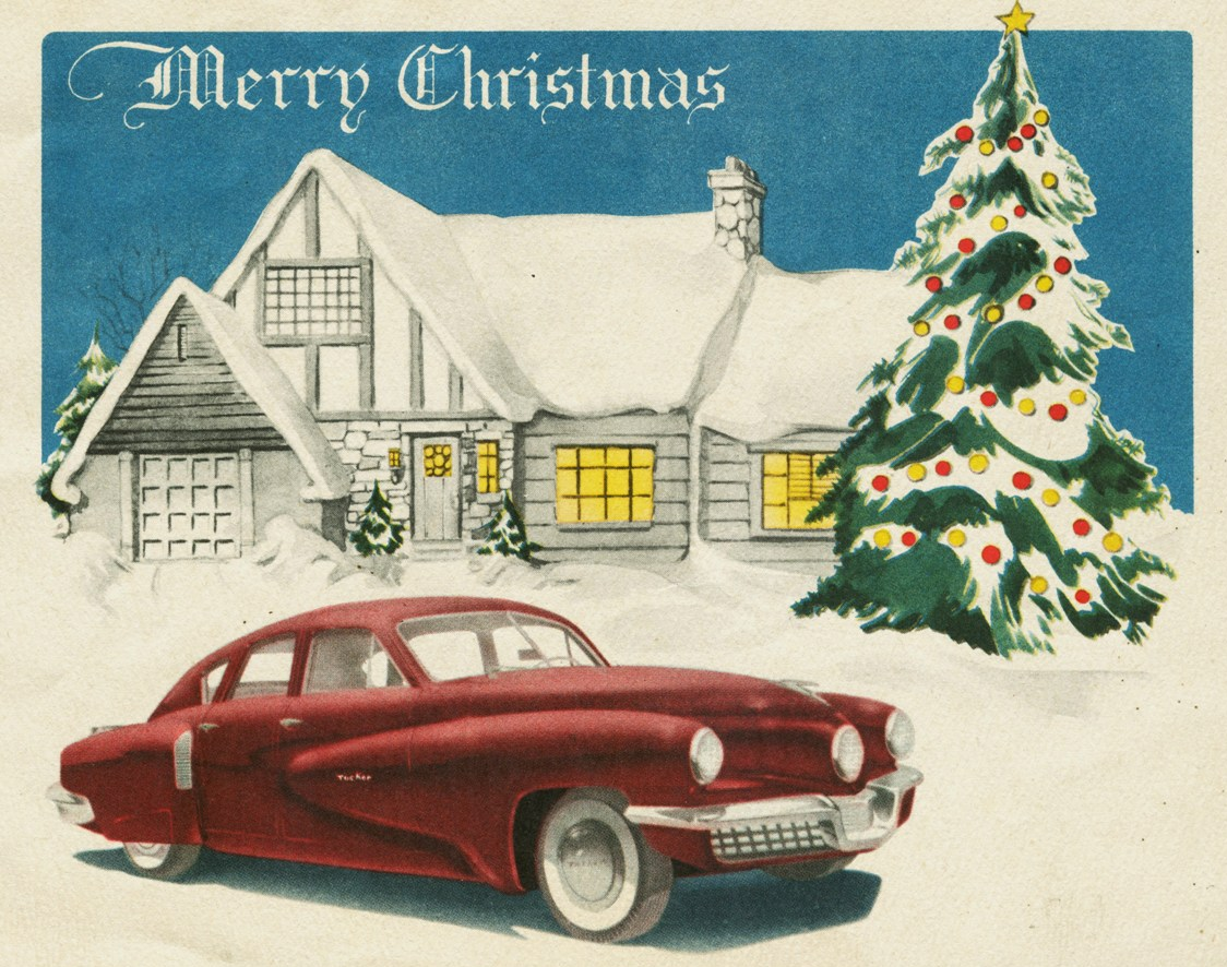 This Tucker Corporation Christmas greeting card is probably from December 1947 as it illustrates the basic design of the Tucker '48, but it has non-production trim.